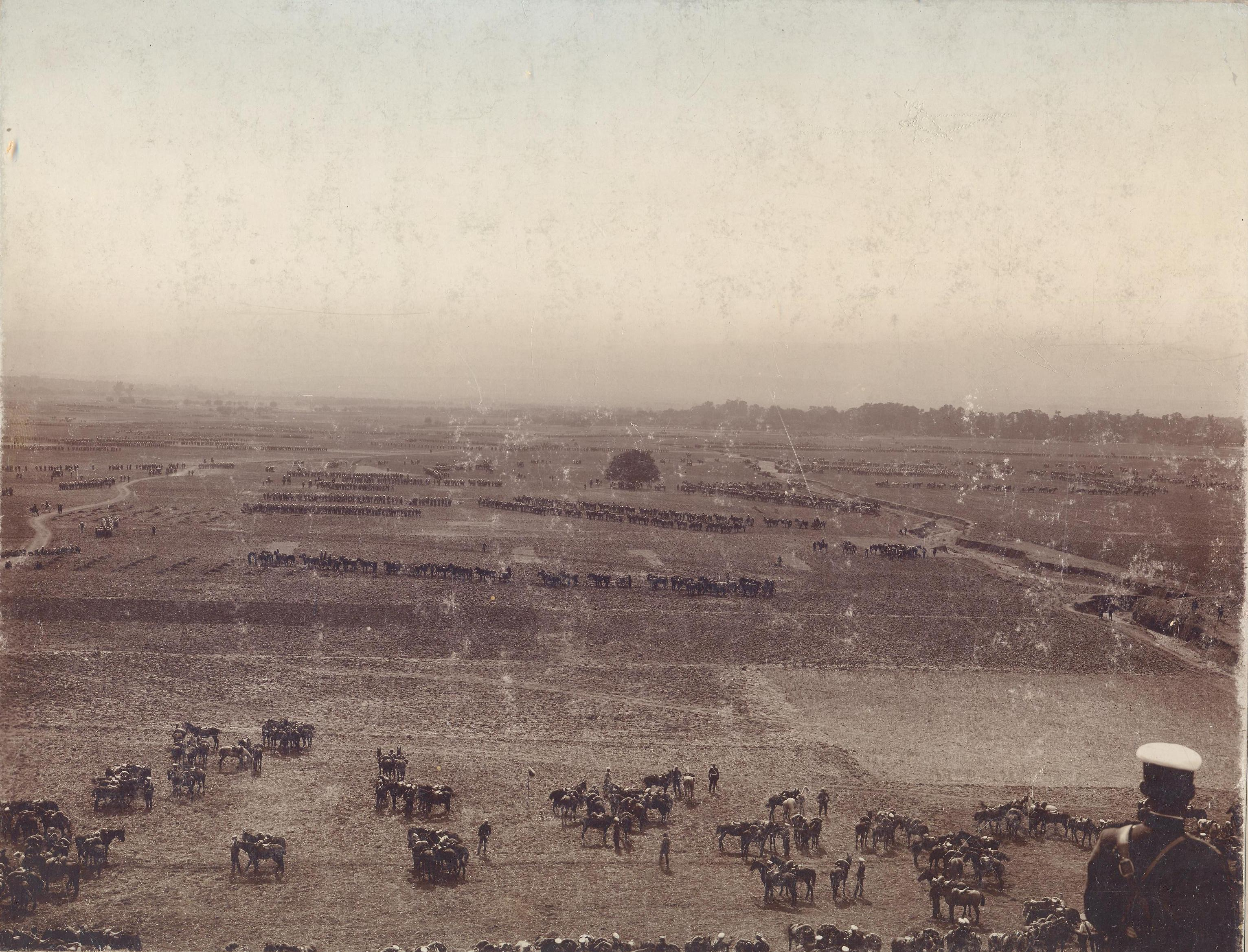 Bulgarian army training in Sheynovo, Bulgaria, 17.09.1902.